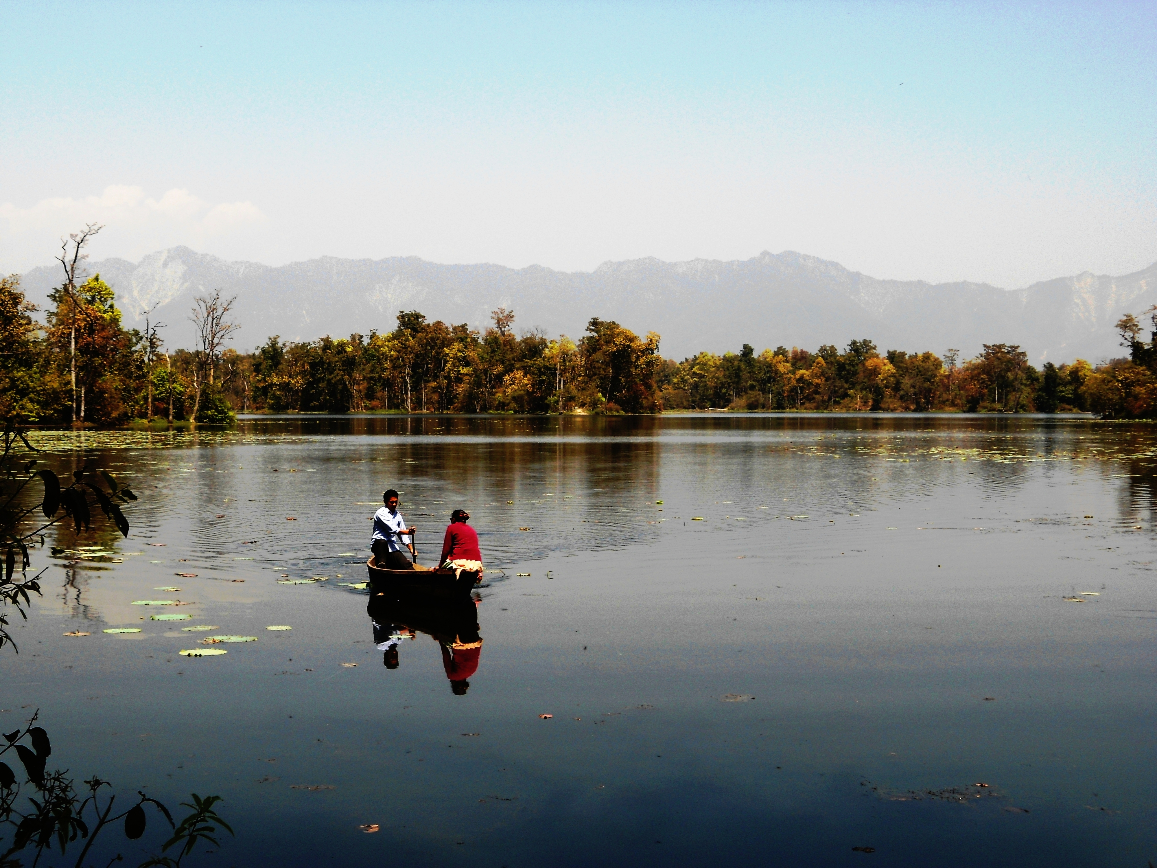 The Ghodaghodi Lake is as diverse and profound as the lake’s eco-diversity. In fact the name Ghodaghodi means male and female horse. One cosmic belief that has stood the test of time is that the lake is tied to a very popular event between two of Nepal’s most revered deities. God Shiva and Parvati were said to have visited the lake in different forms. A hermit came upon the deities and turned them into a horse. Once they were in horse form they then circled around the lake